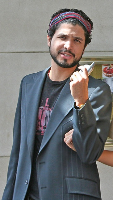 Alejandro Monteverde at the 2006 Toronto International Film Festival